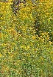 Ridolfia segetum